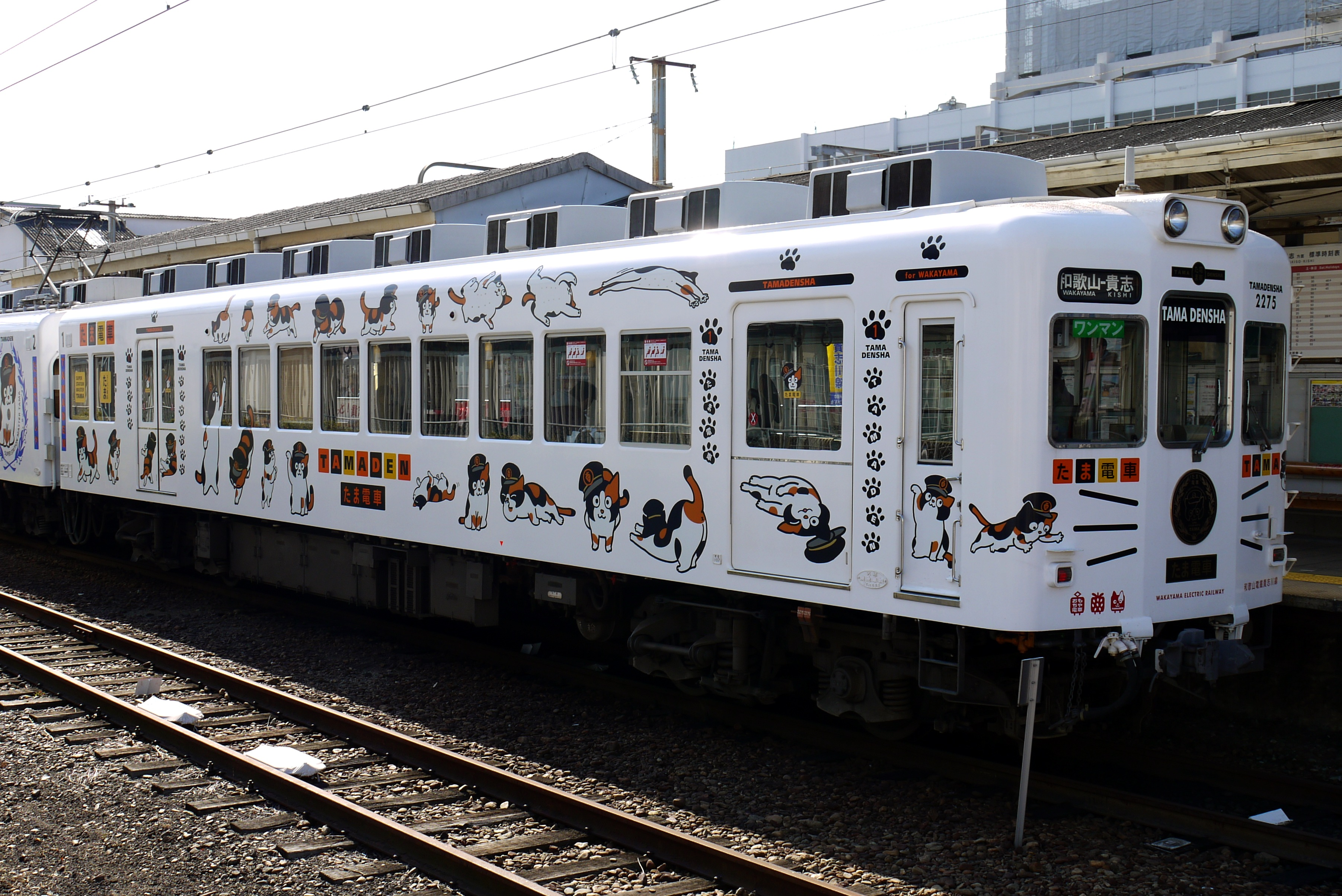 This train, run by the Wakayama Electric Railway, is dedicated to Tama Super Station Master, a cat who works at the Kishi station (the terminus of the Kishikawa Line.)Tama Densha